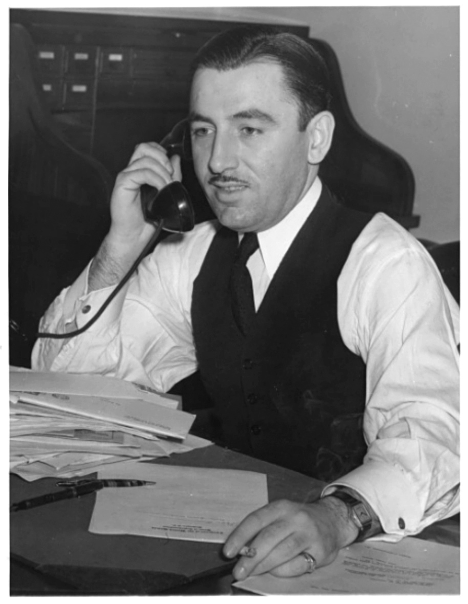 Congressional photo of Thomas D'Alesandro Jr. – bigger image at [1]